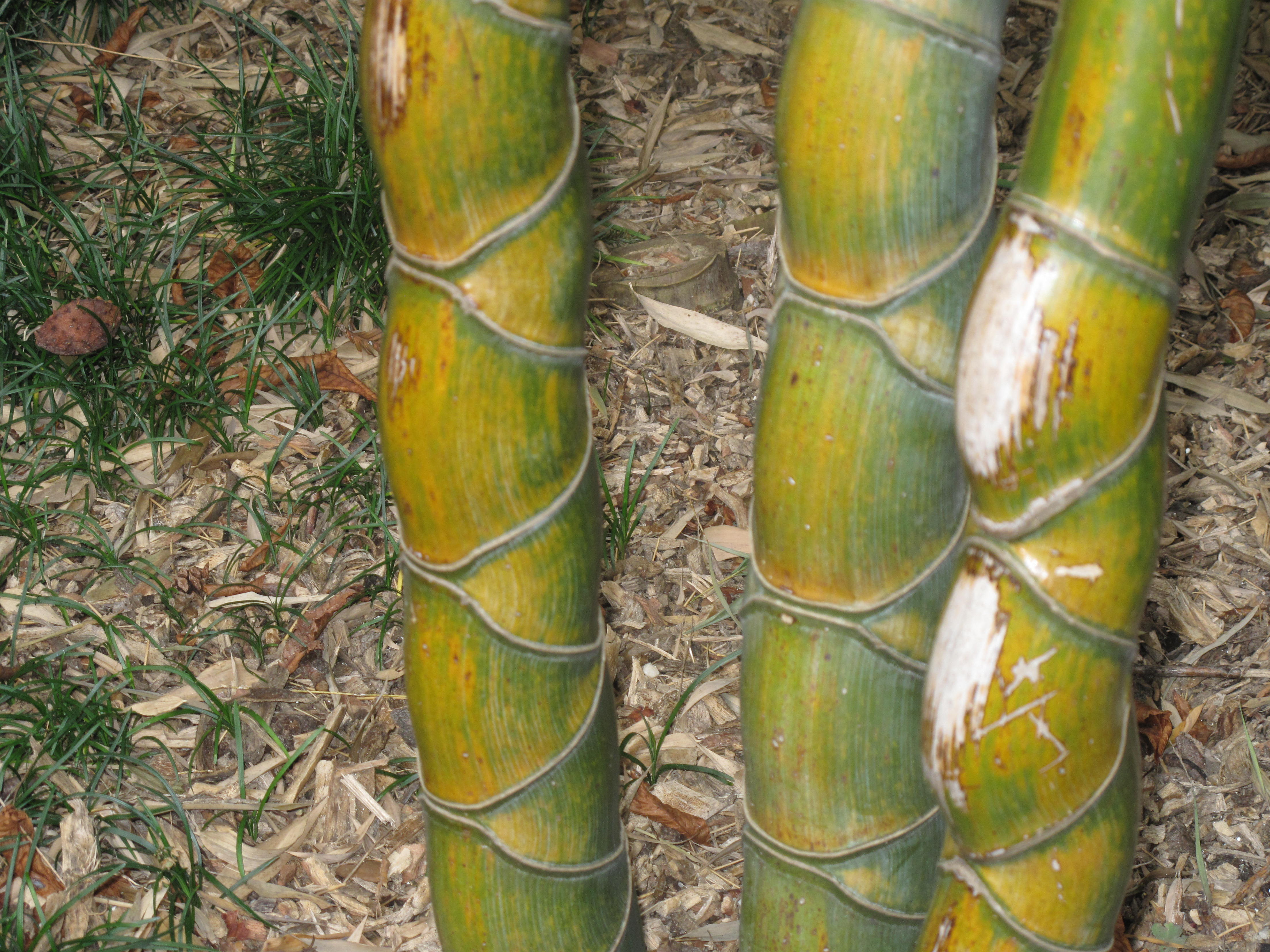 Phyllostachys heterocycla in the bambouseraie de Prafrance, Gard, France.